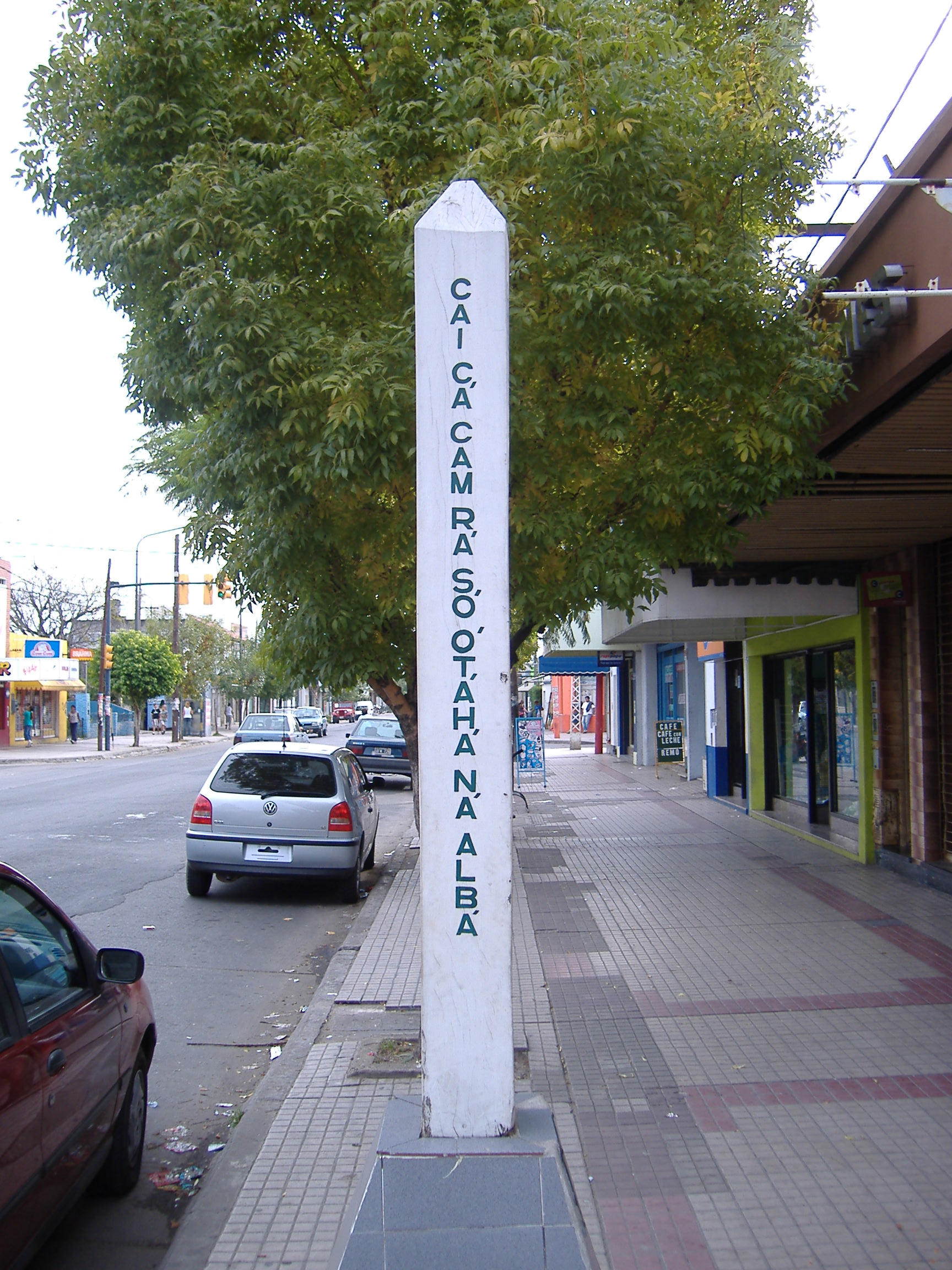 A Peace Pole in the neighbourhood of Empalme Graneros, Rosario, Argentina. The pole has four sides, with the message "May peace prevail on Earth" written in four languages; this pole shows the message in Toba and Italian. The other two languages are Spanish and Guaraní. I, Pablo D. Flores, took this picture myself, in September 2005.